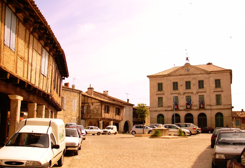 Picture of place in front of the town hall in Montpezat de quercy France